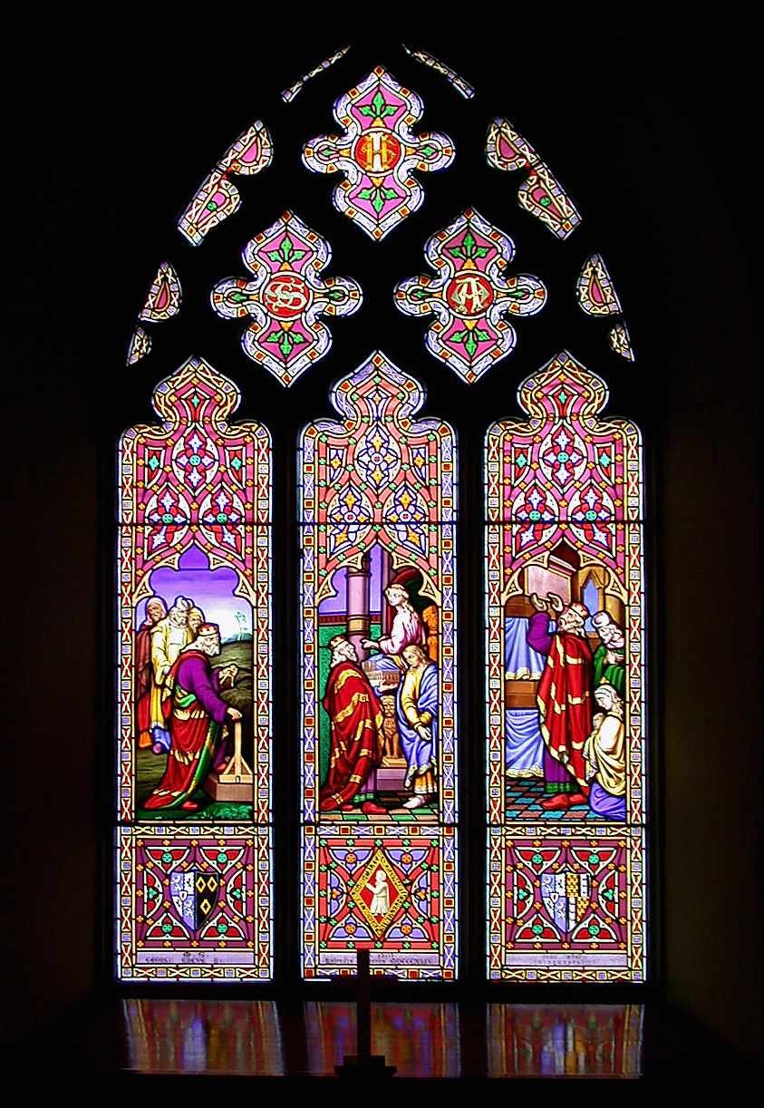 Stained glass window in the church at Calke Abbey, in Derbyshire, UK. Left: arms of Sir George Crewe, 8th Baronet (1 February 1795 – 1 January 1844) impaling Whitaker arms of his wife Jane Whitaker, daughter of the Rev. Thomas Whitaker, Vicar of Mendham, Norfolk. Arms right of his son Sir John Harpur Crewe, 9th Baronet (1824–1886) who married Georgiana Lovell. The arms he impales are Lovell (Barry nebulee of six or and gules), quartering another coat (a Lovell heiress). He married Georgiana Jane Henrietta Eliza Lovell, a daughter of Capt. W. Stanhope Lovell, RN, KH, of Alverstoke, Hampshire